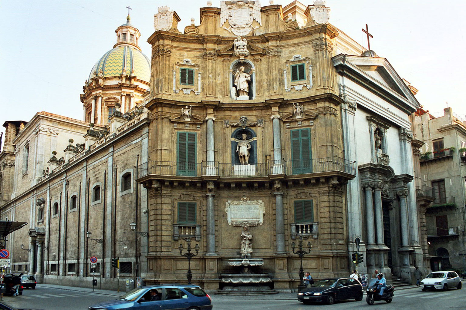 San Giuseppe dei Teatini, Palermo Lateral view, main facade, and cupola of the church and the facade of the sout-west corner of Quattro Canti